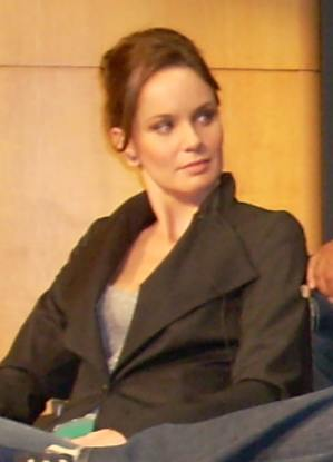 Actress Sarah Wayne Callies at Paley Center for Media, Beverly Hills, California